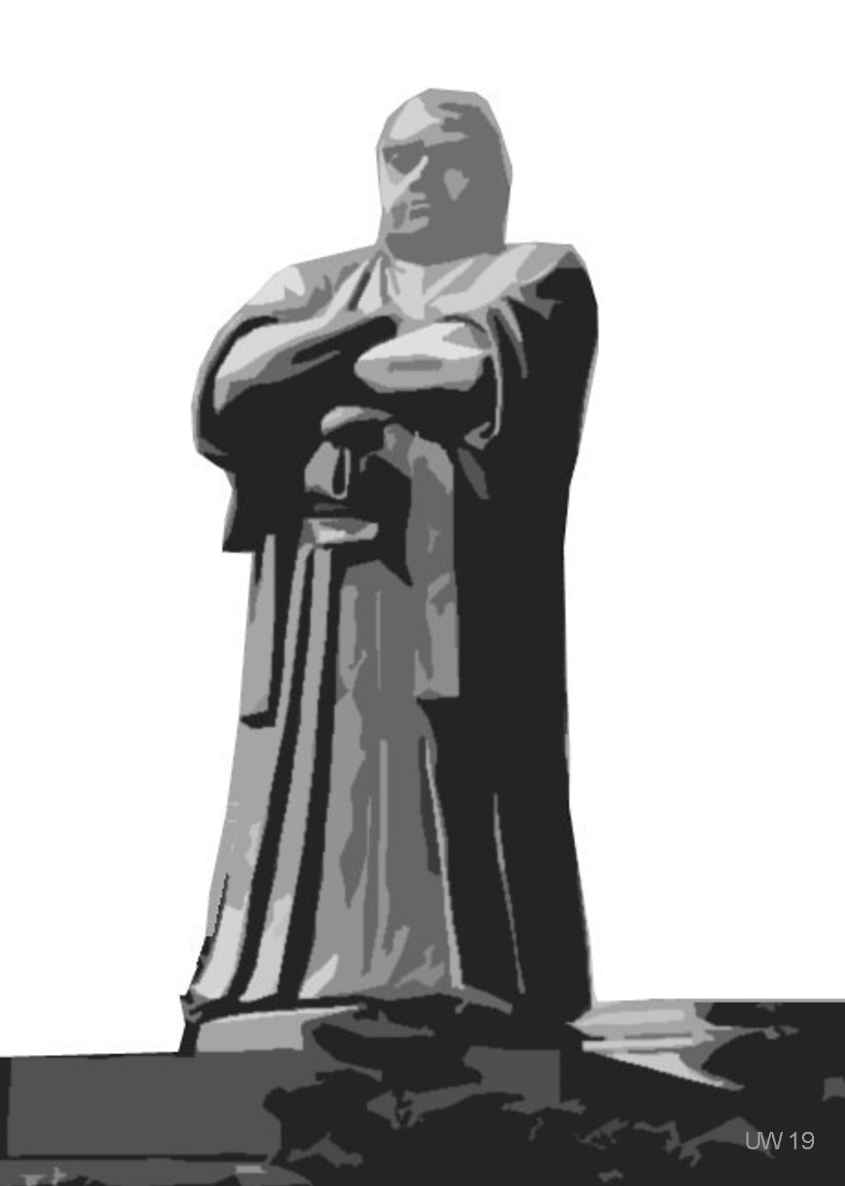 Saigō Takamori within Saigō-Park